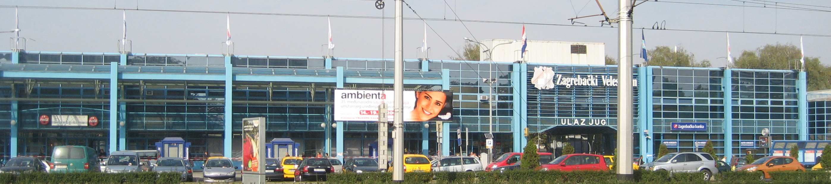 Trade Fair Zagreb